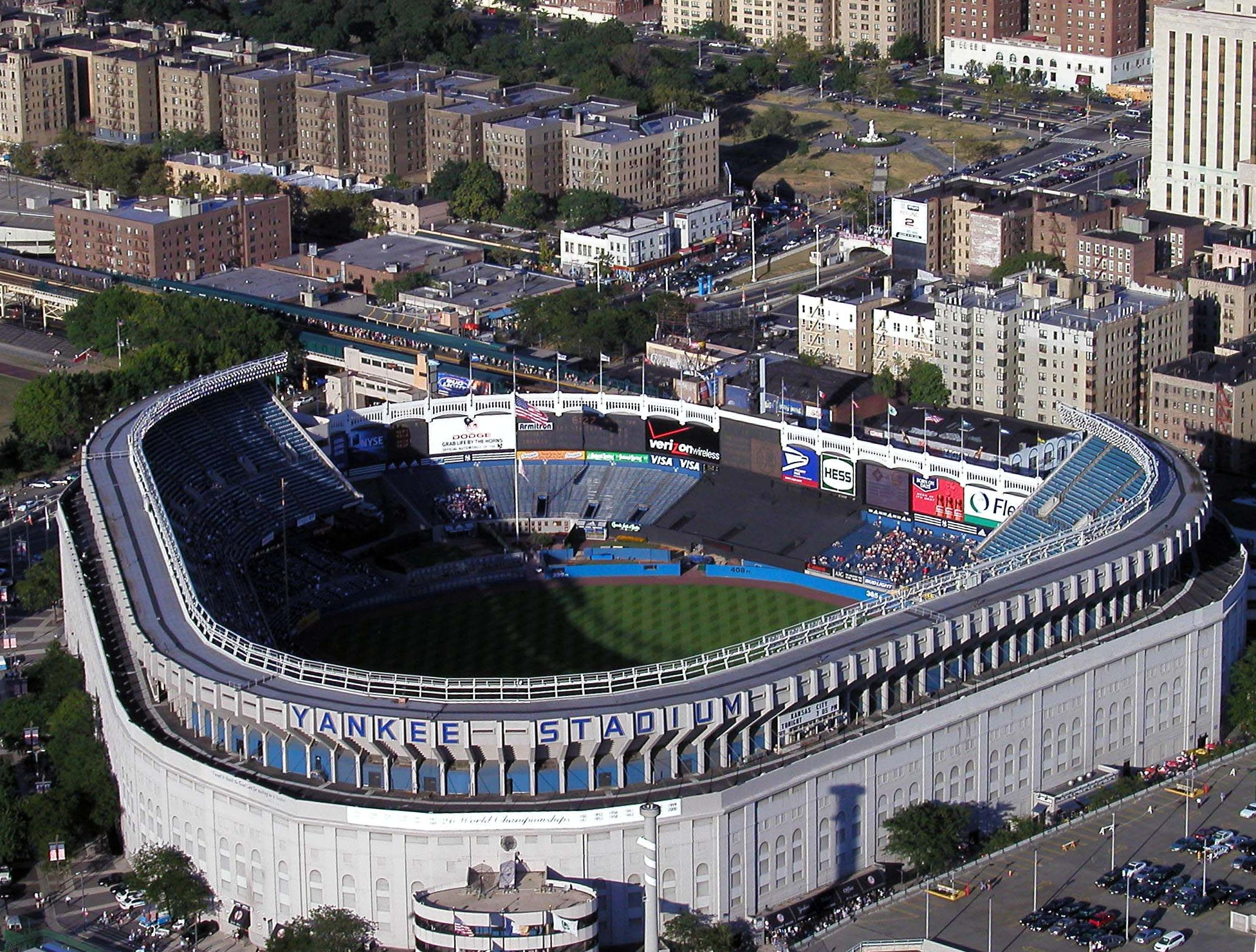 This picture was taken from an Army Blackhawk helicopter. It was amazing to see New York from the air like this! If you look close it looks like there might be a game getting started.